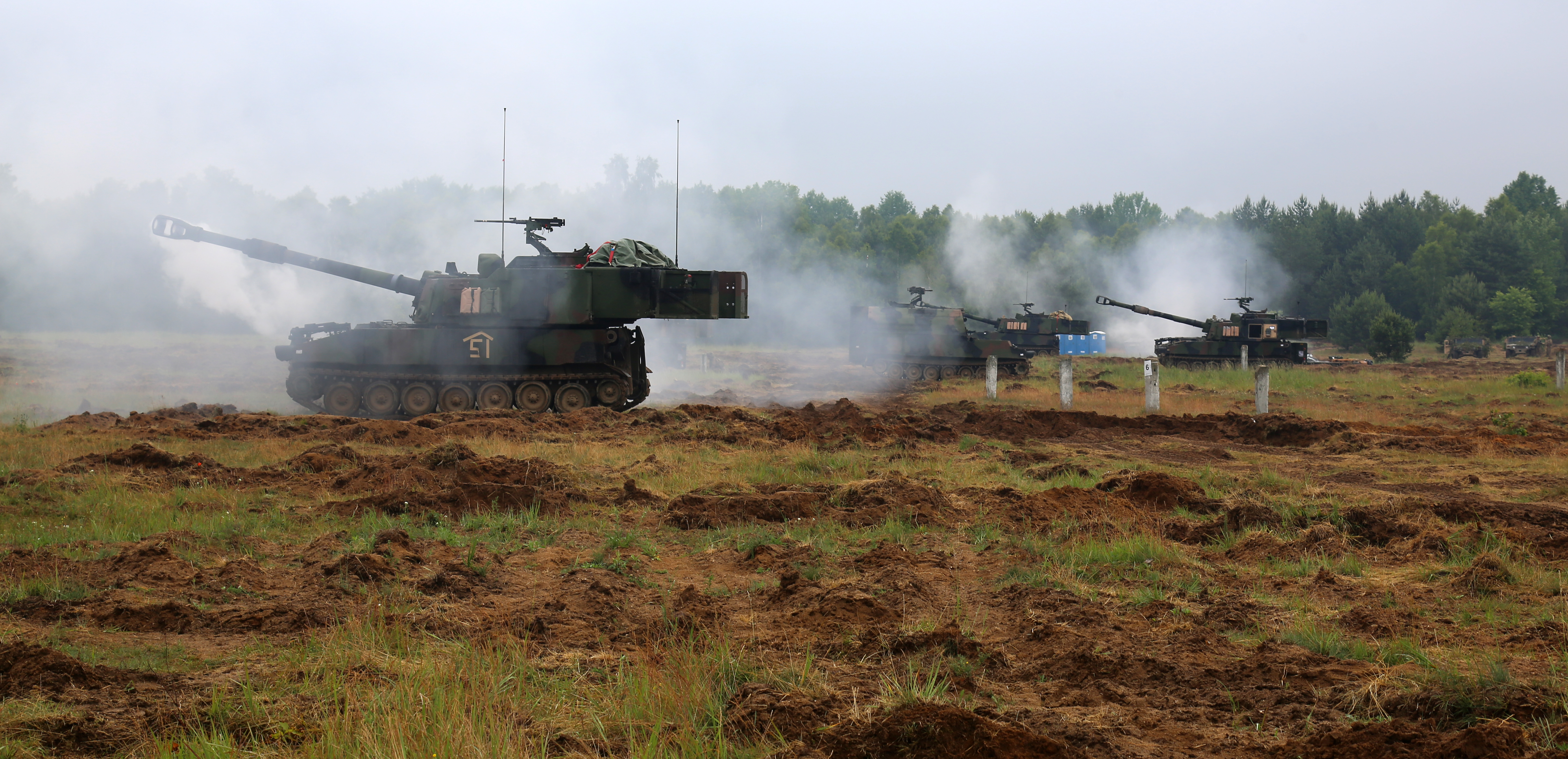 U.S. Soldiers assigned to Battery A, 1st Battalion, 41st Field Artillery Regiment, 1st Armored Brigade Combat Team, 3rd Infantry Division, fire the Paladin M109A6 Artillery System with 155mm artillery rounds during Operation Anakonda in the Drawsko Pomorskie Training Area (DPTA) near Olezno, Poland, June 14, 2016. Anakonda 2016 is a Polish-led multinational exercise, taking place in Poland from June 7-17. This exercise involves more than 31,000 participants from more than 20 nations. (U.S. Army video by Sgt. Ashley Marble/Released) Unit: 55th Combat Camera